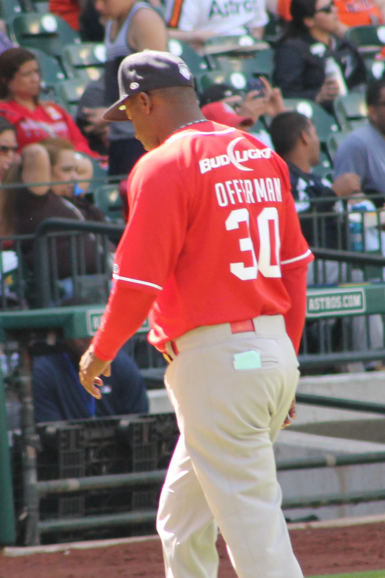 José Offerman as manager of the Rojos del Águila de Veracruz in a March 2014 exhibition game at Minute Maid Park.